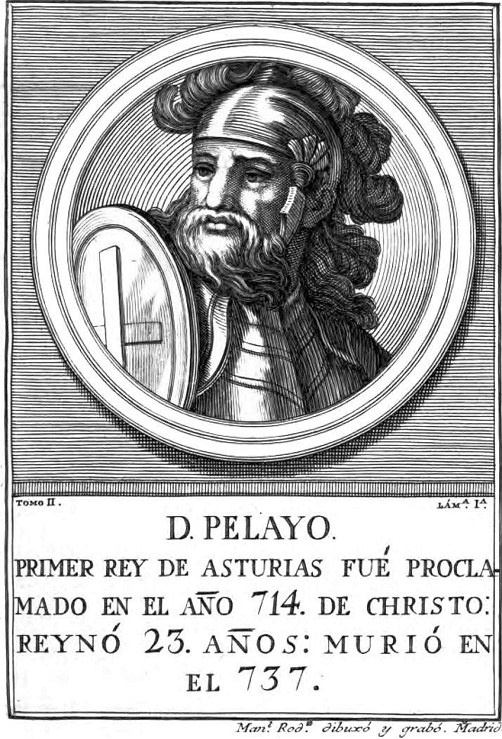 King Pelagius of Asturias